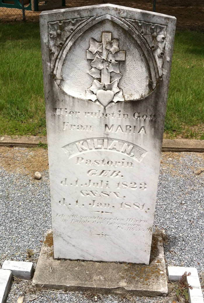 Maria Kilian's gravestone in Serbin, TX. She was wife of J Kilian, was born and raised in Sorbian/Wendish part of Germany, came to Texas in 1854.